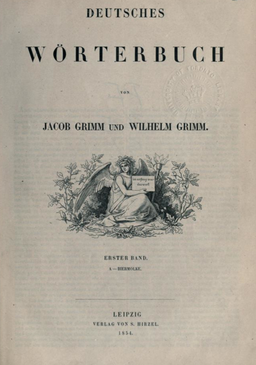 Title page of 1854 edition of German Dictionary, (Deutsches Worterbuch) published by Jacob and Wilhelm Grimm